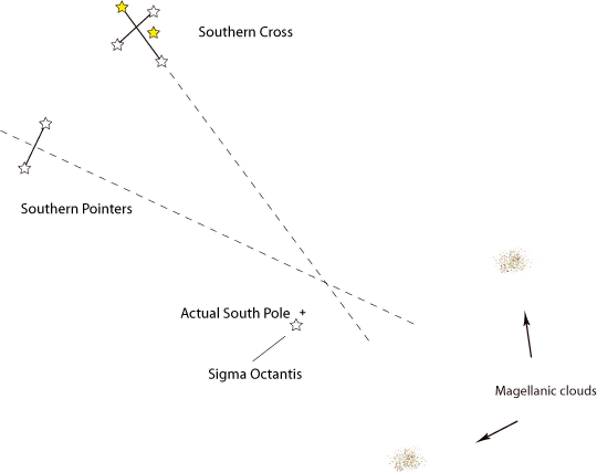 I, Michael Millthorn is the author of this illustration. Published in 2007.